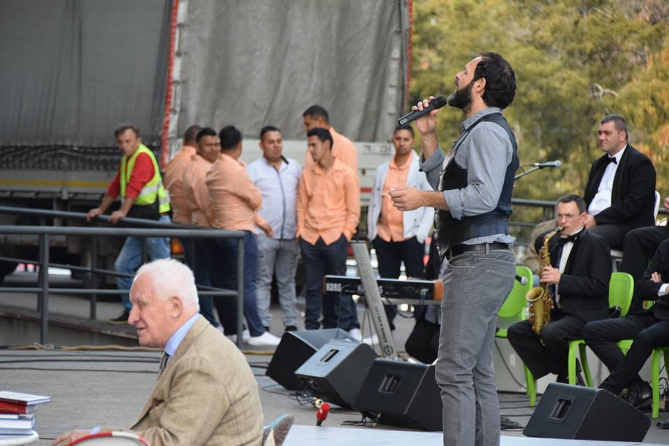 Writer Matija Bećković and actor Aleksander Srećković Kubura during the program at Belgrade Book Fair 2017